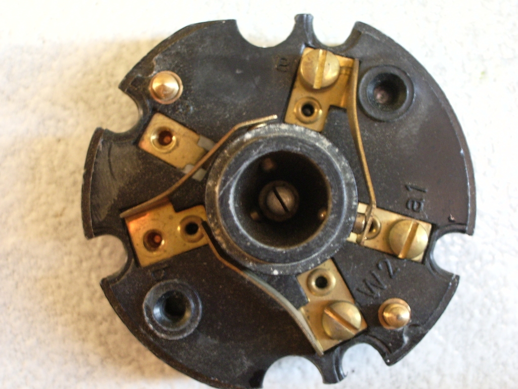 Old German telephone socket